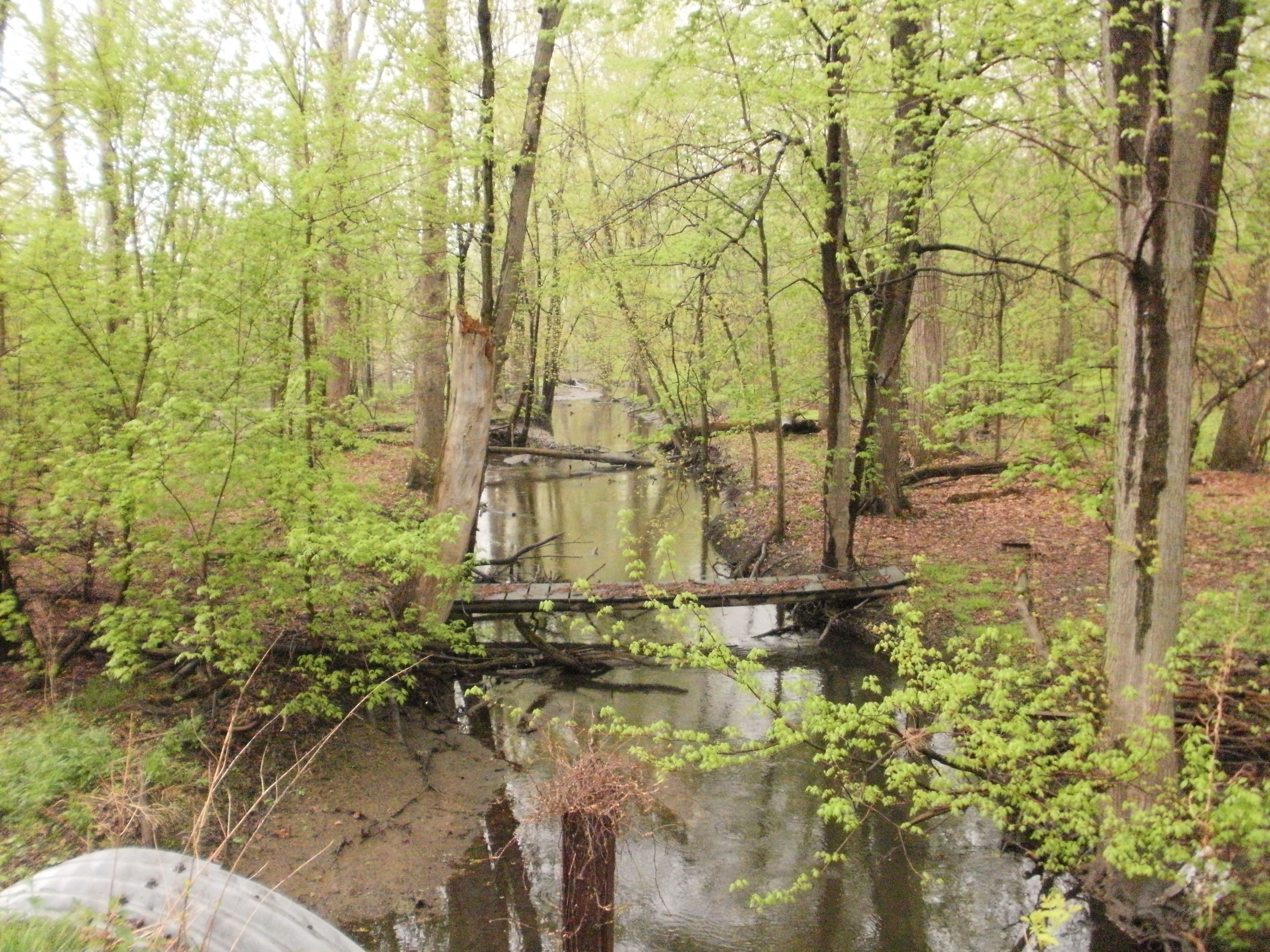 Redinger Ditch just north of Fulton County Road 650 North in Indiana, United States.